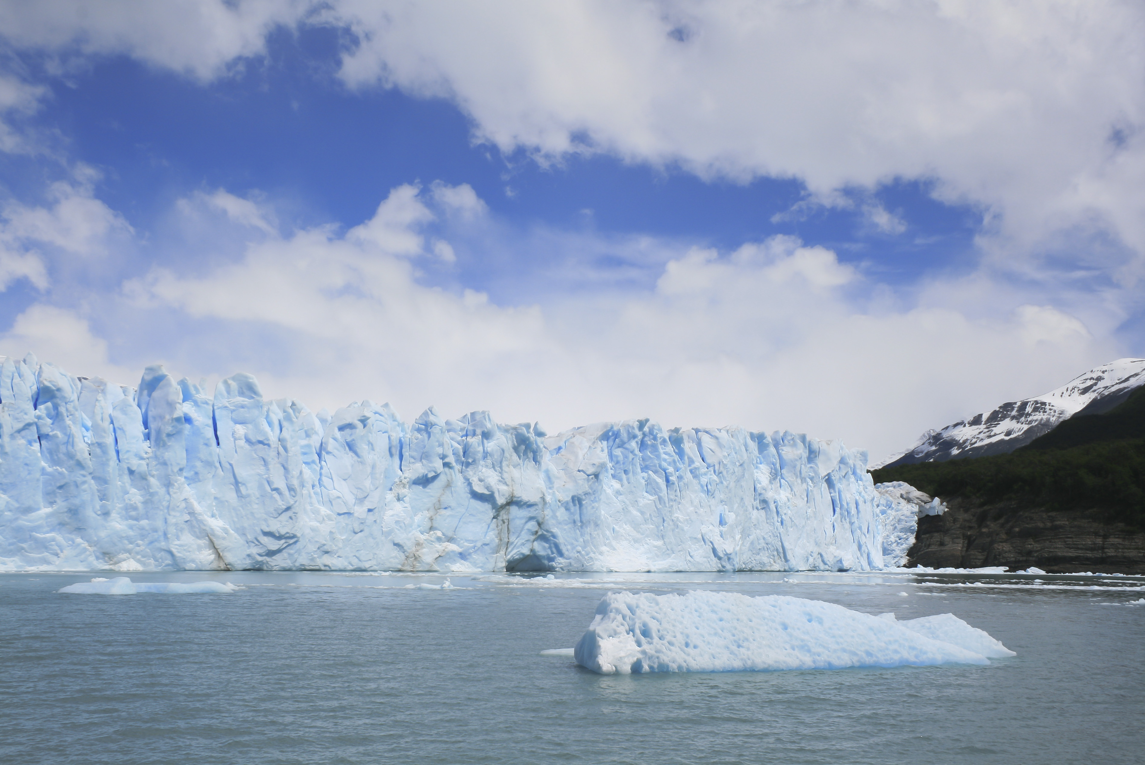 Perito Moreno Glacier, Argentina